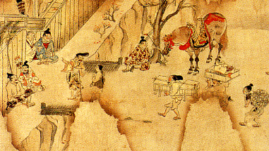 The Legendary Origins of Kokawadera (紙本著色粉河寺縁起, shihon chakushoku Kokawadera engi). Handscroll (Emakimono), 30.8 cm、x 1984.2 cm. Color on paper. Located at Kokawadera (粉河寺), Kinokawa, Wakayama.